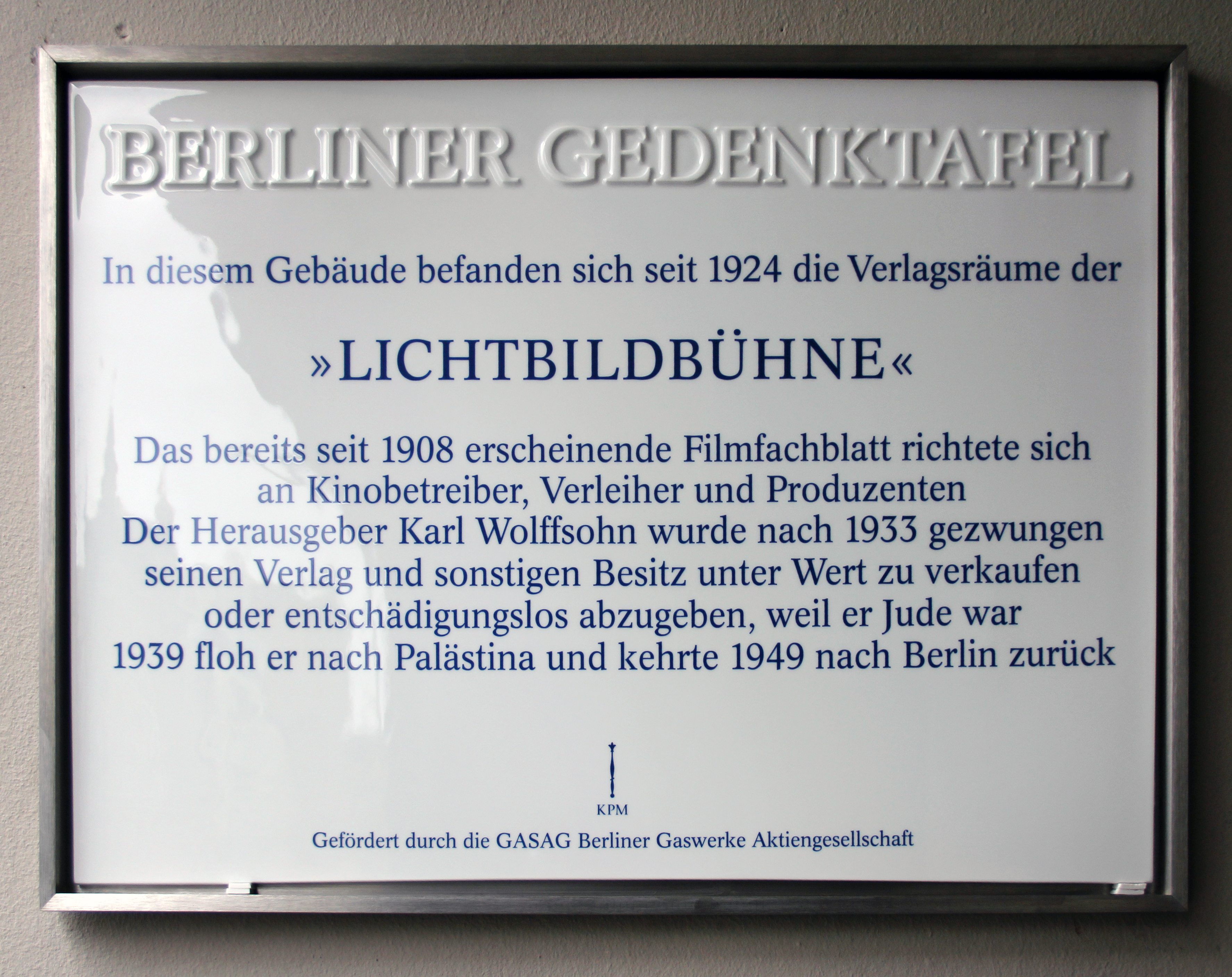 Berlin memorial plaque, Lichtbildbühne, Friedrichstraße 225, Berlin-Kreuzberg, Germany